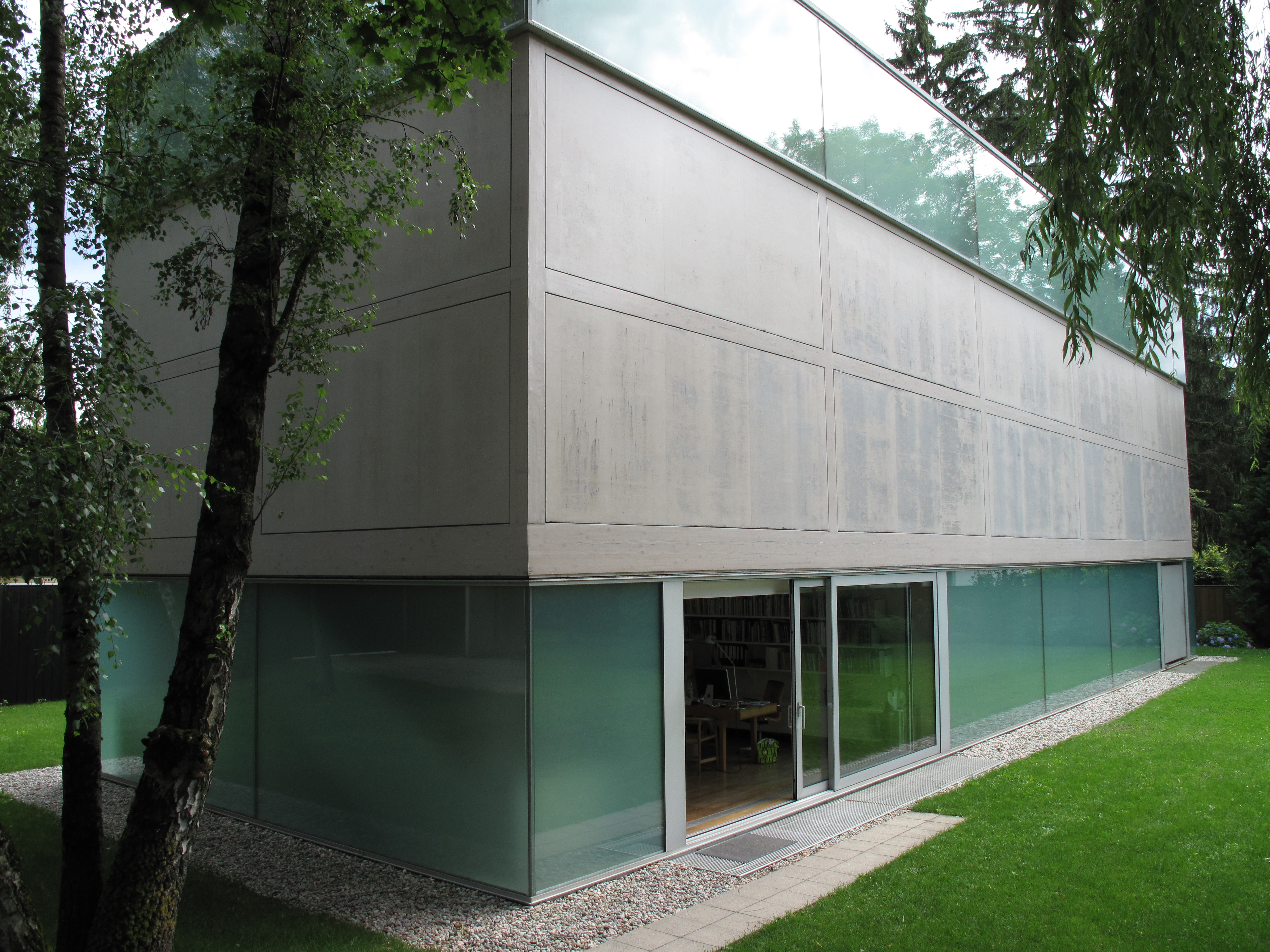 The museum-building of the Sammlung Goetz in Munich (district: Oberföhring).